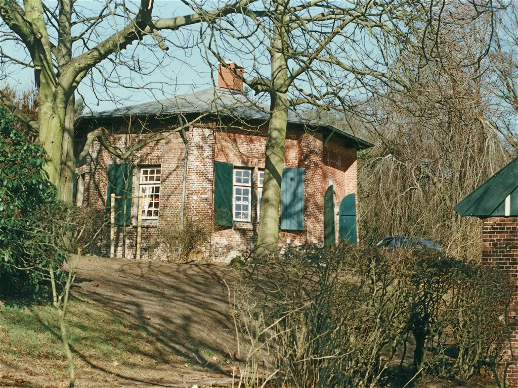 Uetersen, Langes Tannen, Rest of the former Windmill, photo 1990